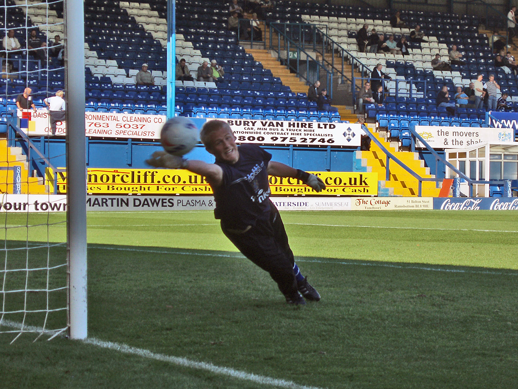 Bury FC's goalkeeper Kasper Schmeichel at Gigg Lane football ground, home of Bury FC. Saturday 23rd September 2006